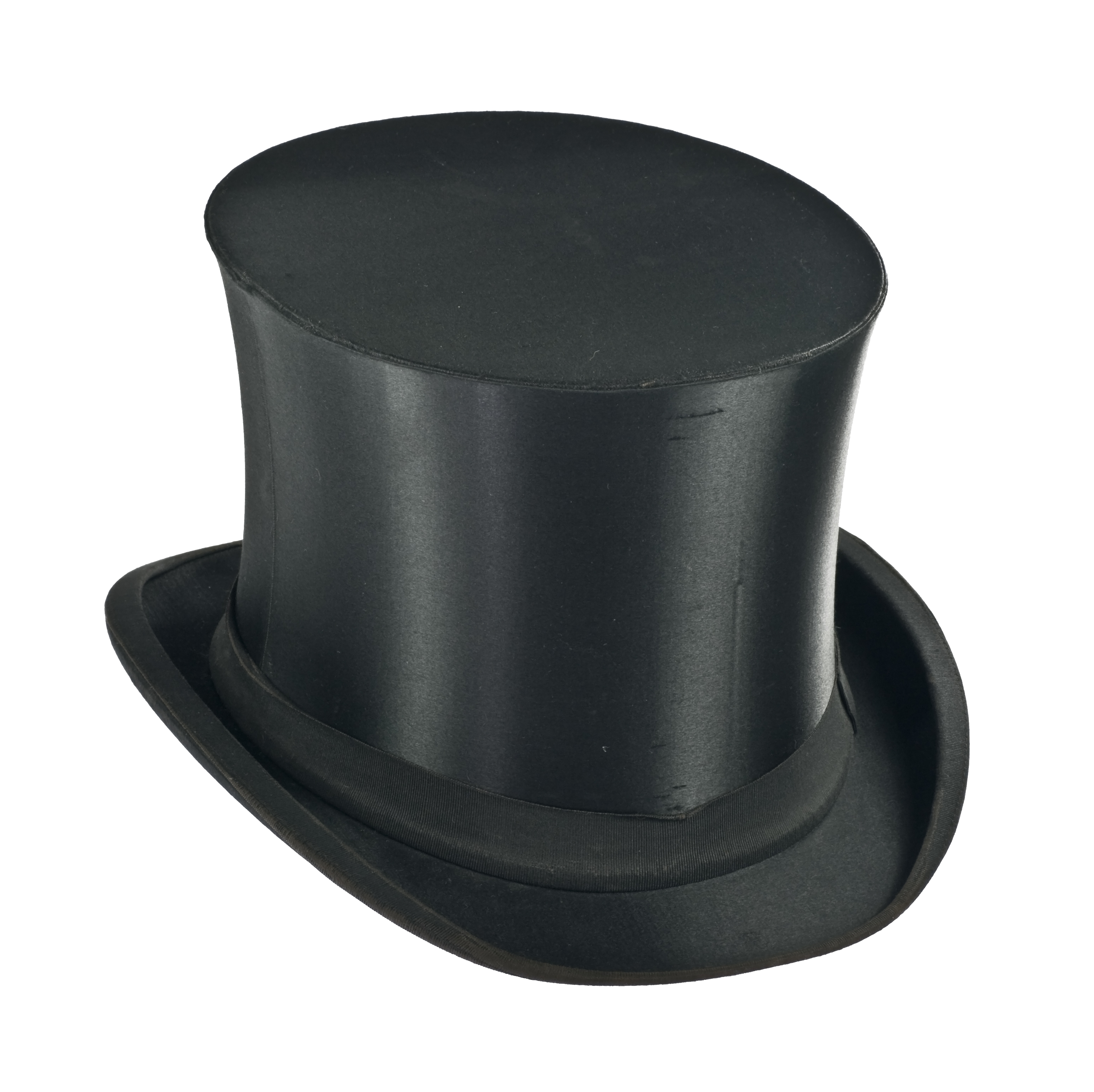 Collapsible top hat